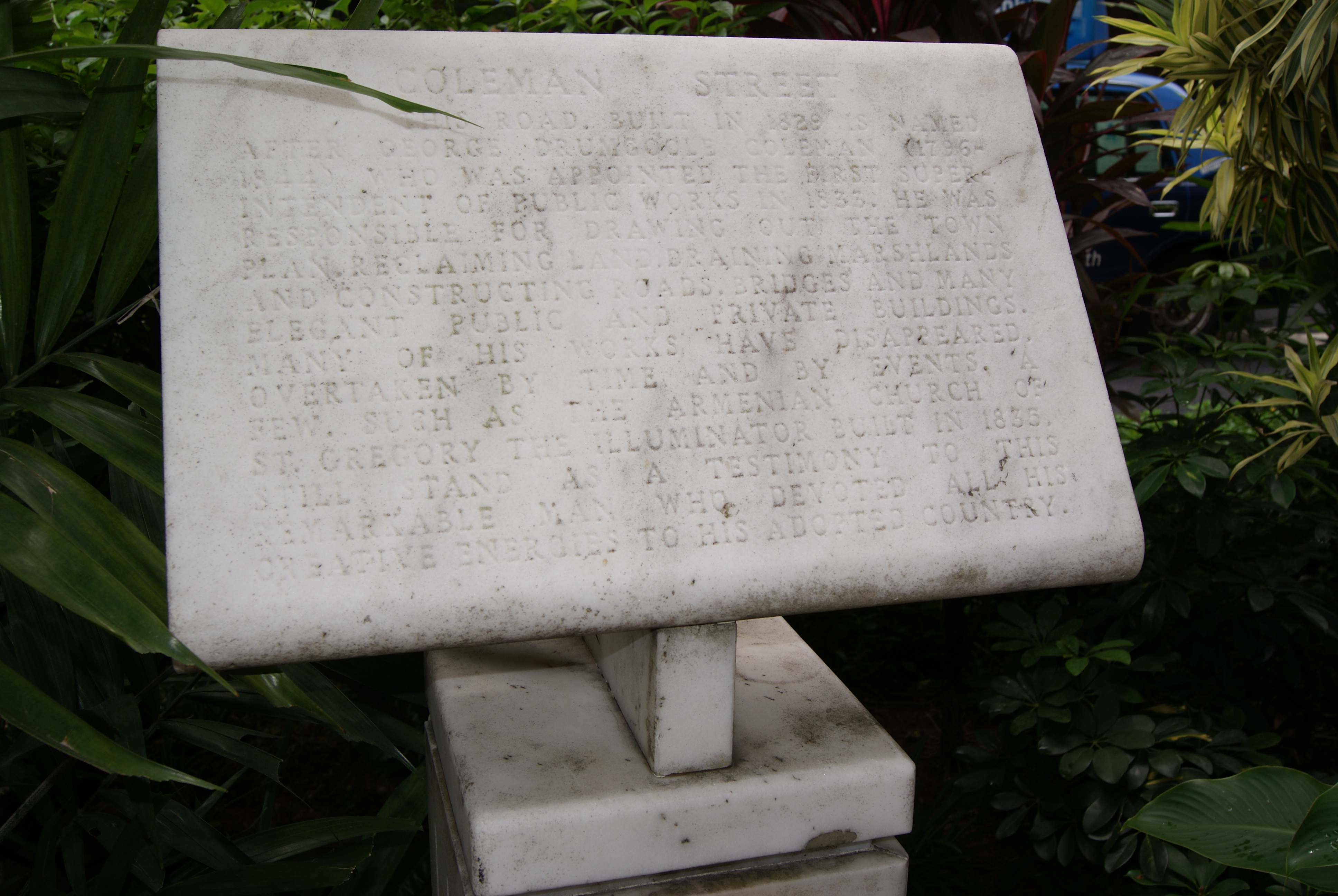 A plaque commemorating the architect George Drumgoole Coleman at the junction of Coleman Street and Hill Street outside Excelsior Shopping Centre, Singapore.